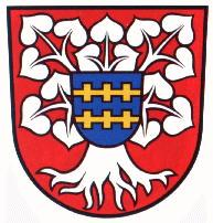 Coat of arms of Starkenberg